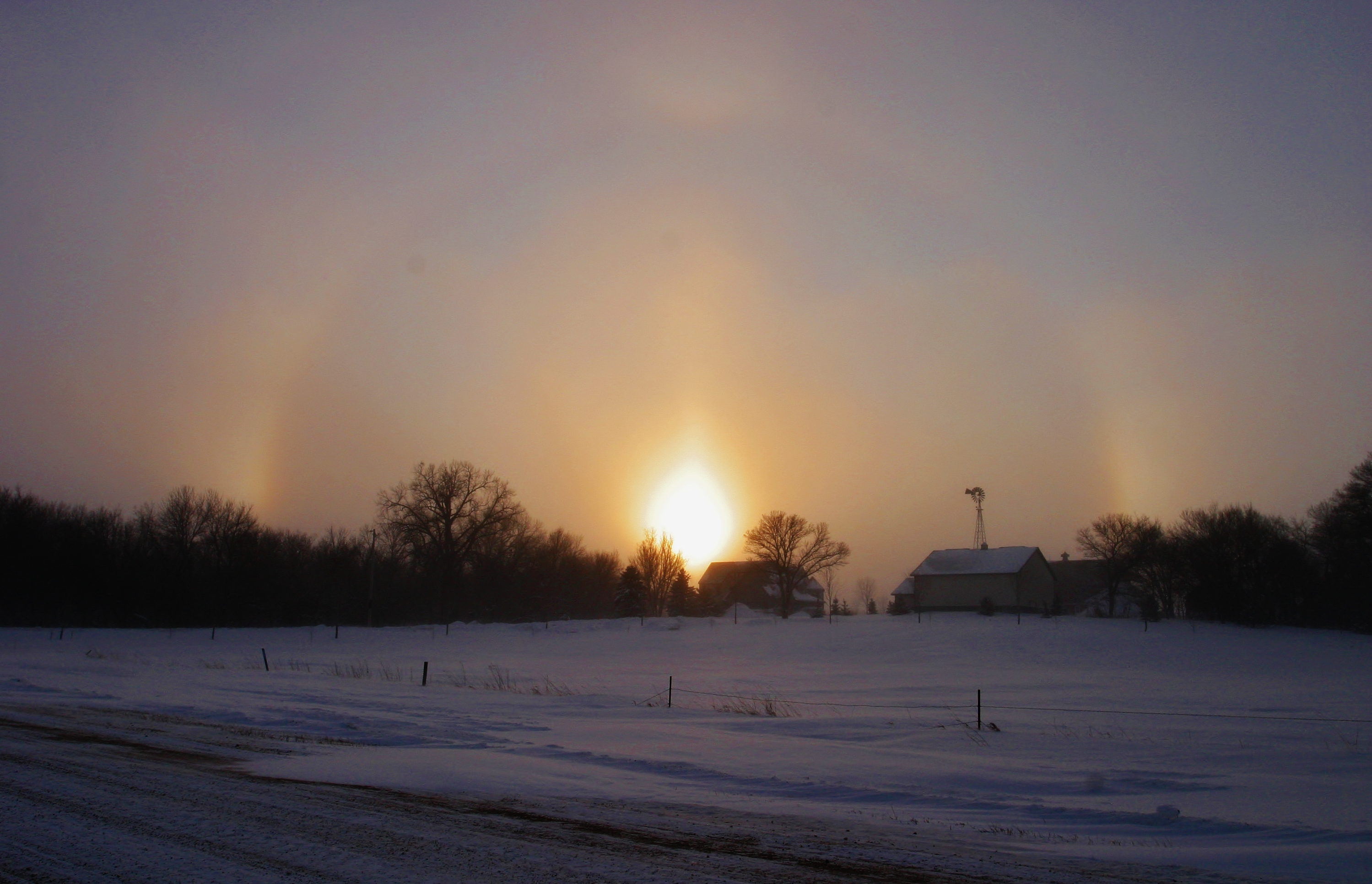 Late afternoon under a blizzard warning in SW Minnesota sundogs began to appear over a farm in Minneota.